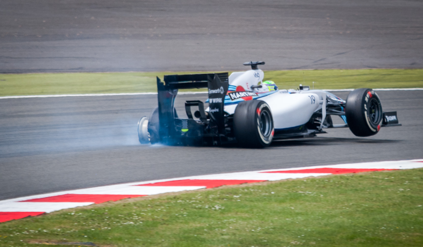 Felipe Massa on his way to the pit lane with a puncture. The puncture was the result of trying to avoid an accident caused by Kimi Räikkönen on the first lap of the 2014 British Grand Prix at Silverstone.